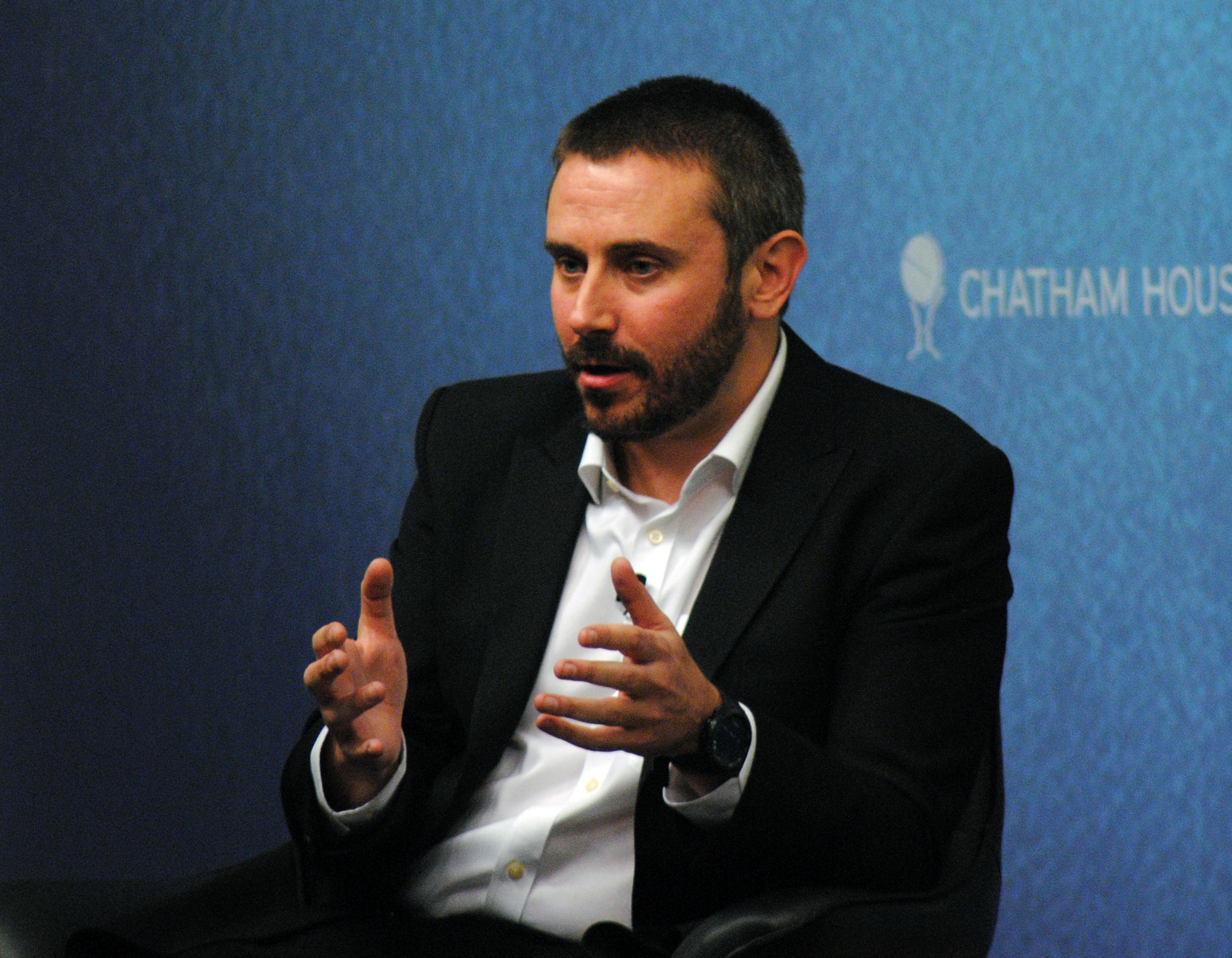 Jeremy Scahill, National Security Correspondent, The Nation; Author, Dirty Wars at the Chatham House event "Targeted Killings and Drones: A Global Battlefield", 28 November 2013